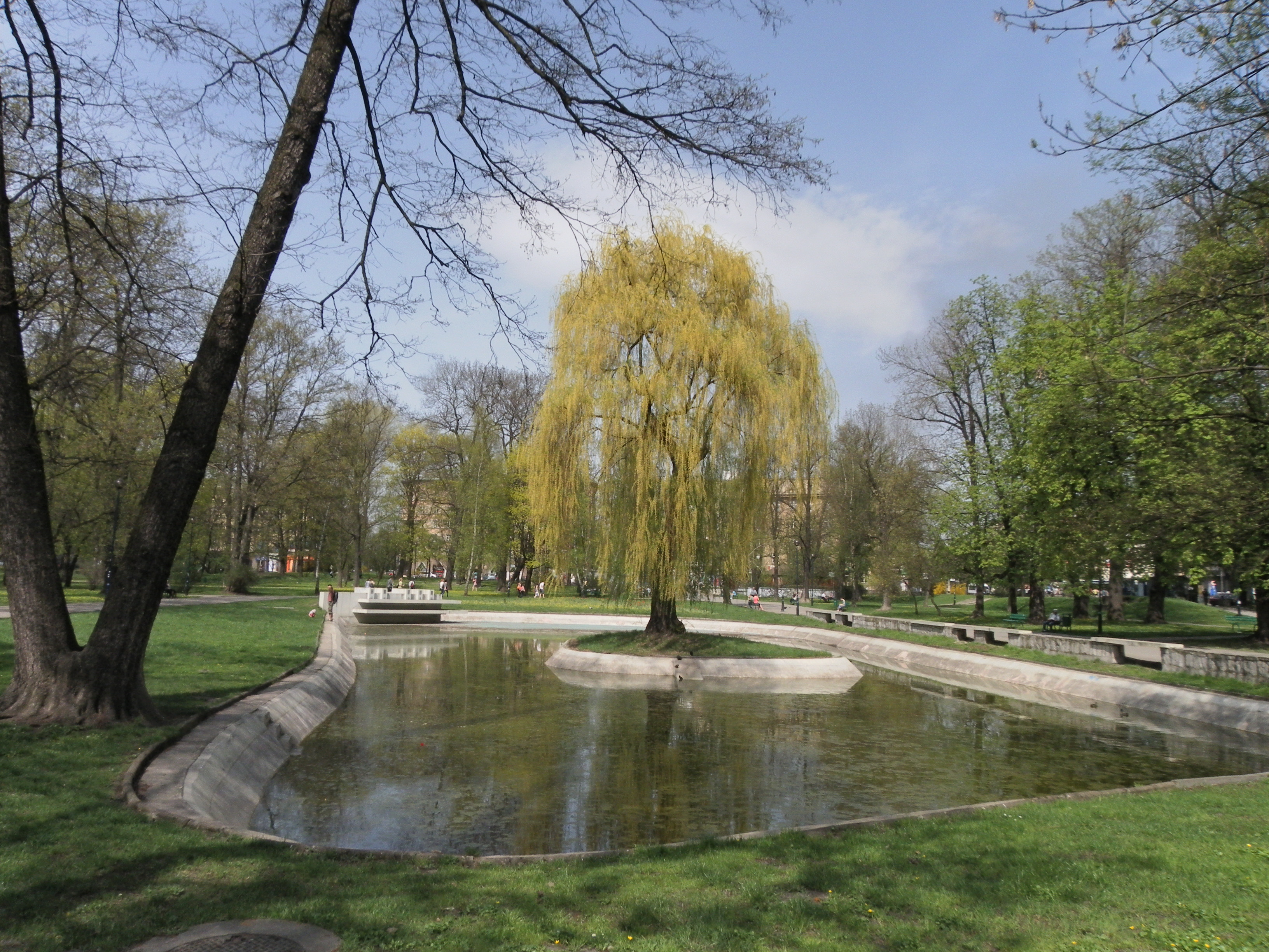 Park Krakowski is a 12.5 acres (5.1 ha) city park located in Krakow, in southern Poland.